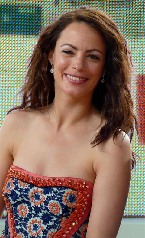 Bérénice Béjo at the 2012 Cannes Film Festival.